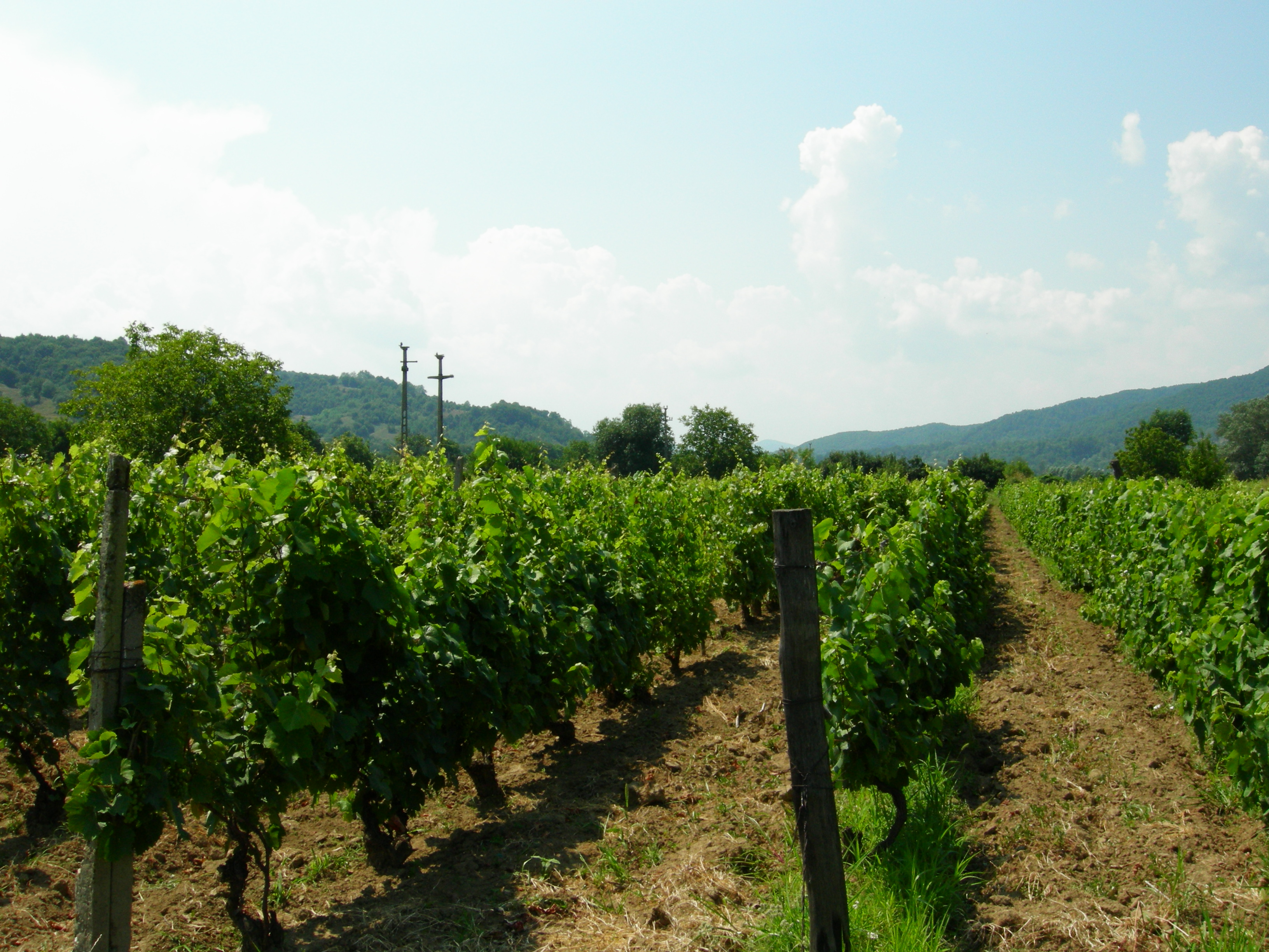 Vinyard near Focşani, Romania